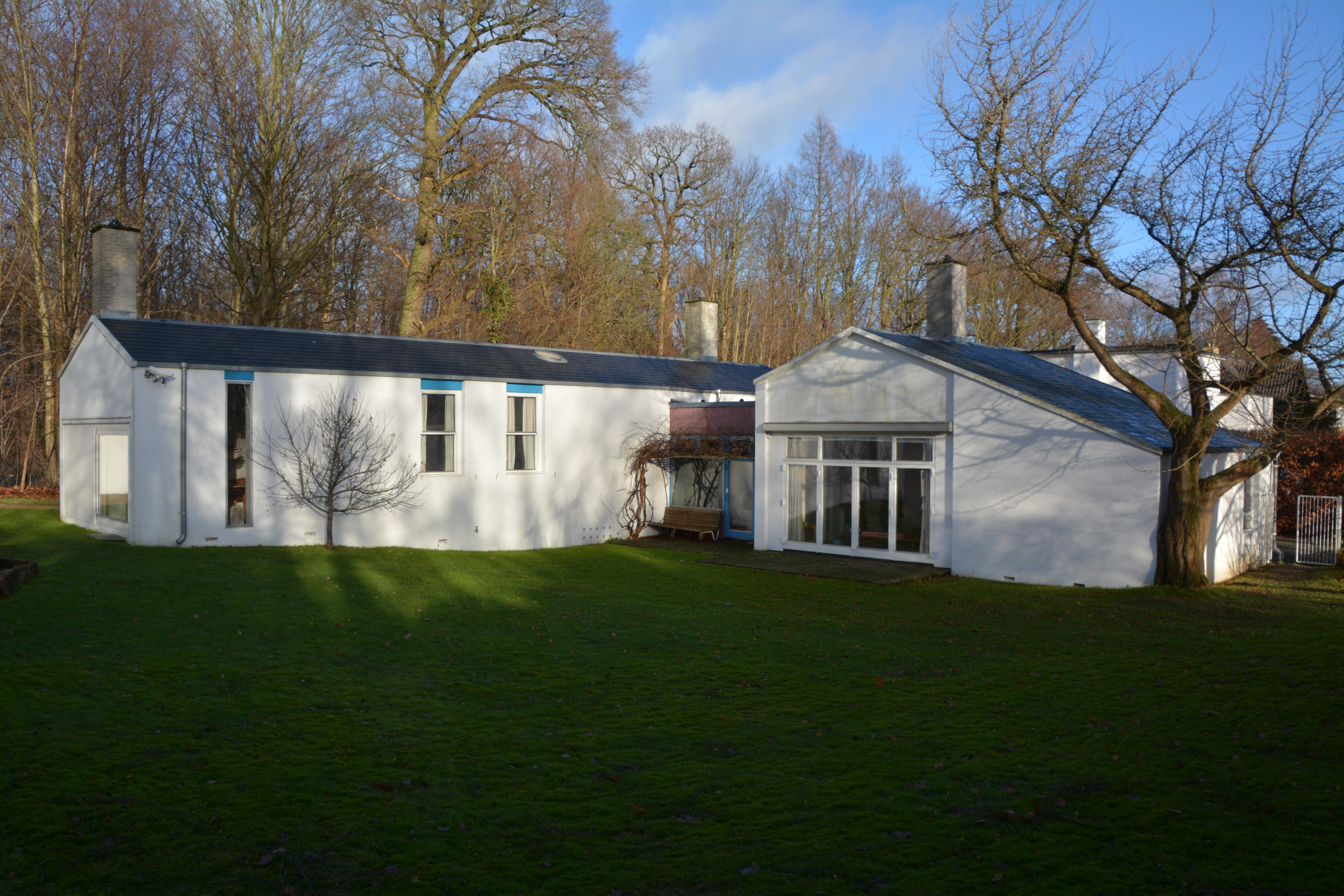 Finn Juhl's house, Charlottenlund, Copenhagen. View from south, garden side.